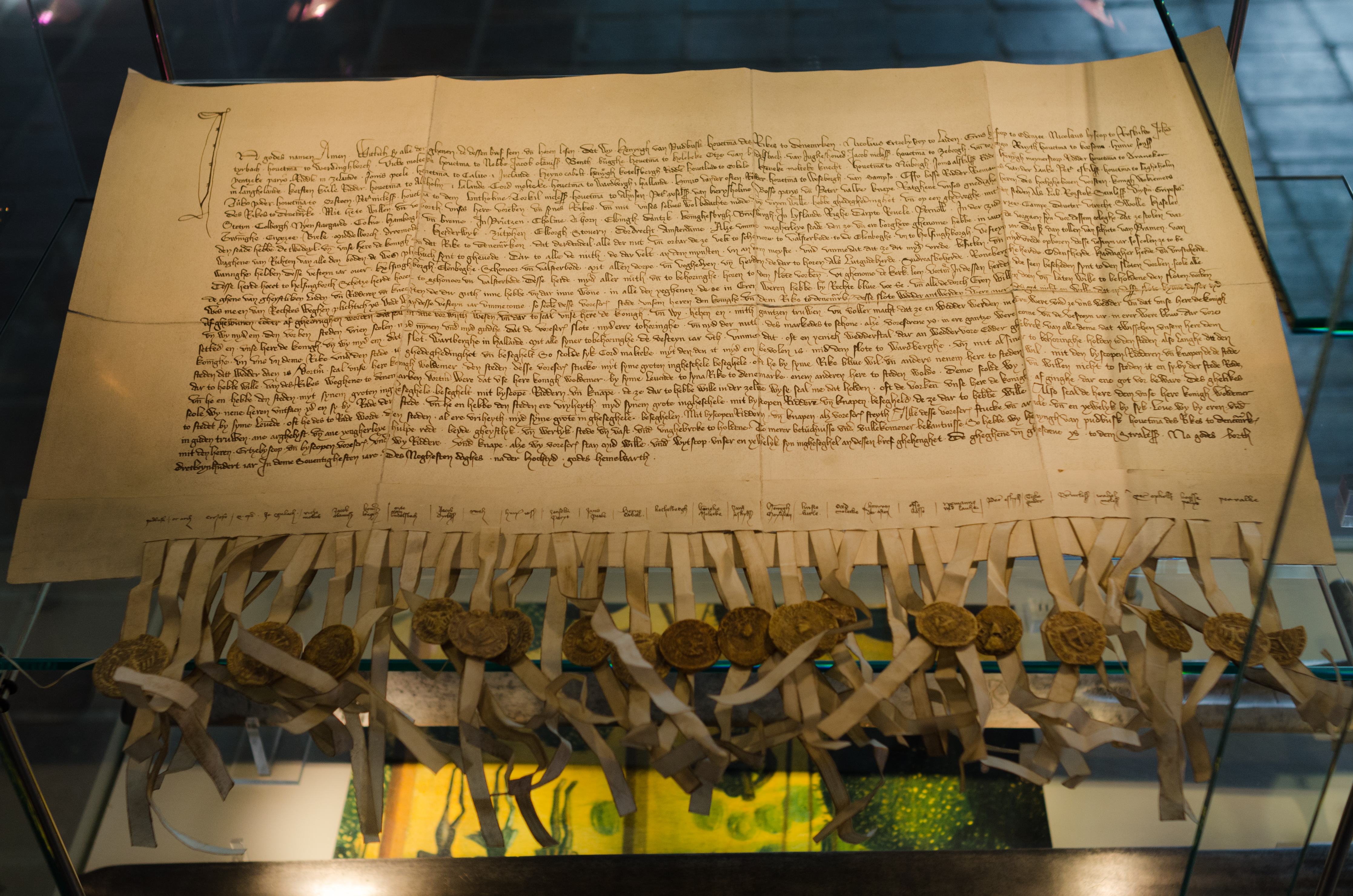 Picture of an exhibit in the cultural-historical museum of Stralsund. Copy of the Treaty of Stralsund. Paper, 1370. Original: Stralsund, archive of the town.